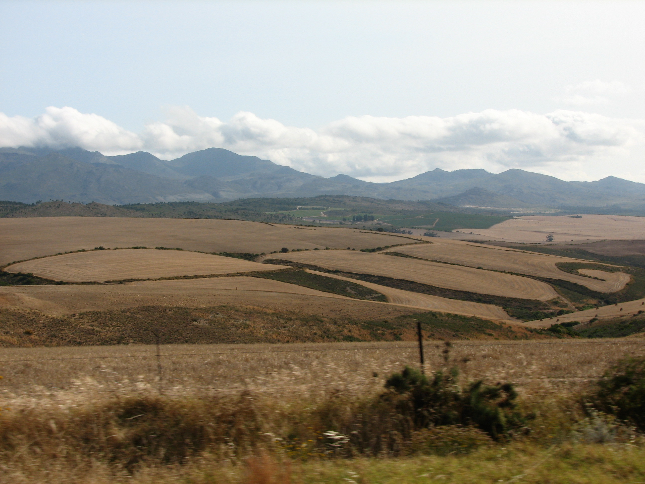 CapeOverberg, on 23 December 2006 Taken by myself, Andres de Wet, on 23 December 2006